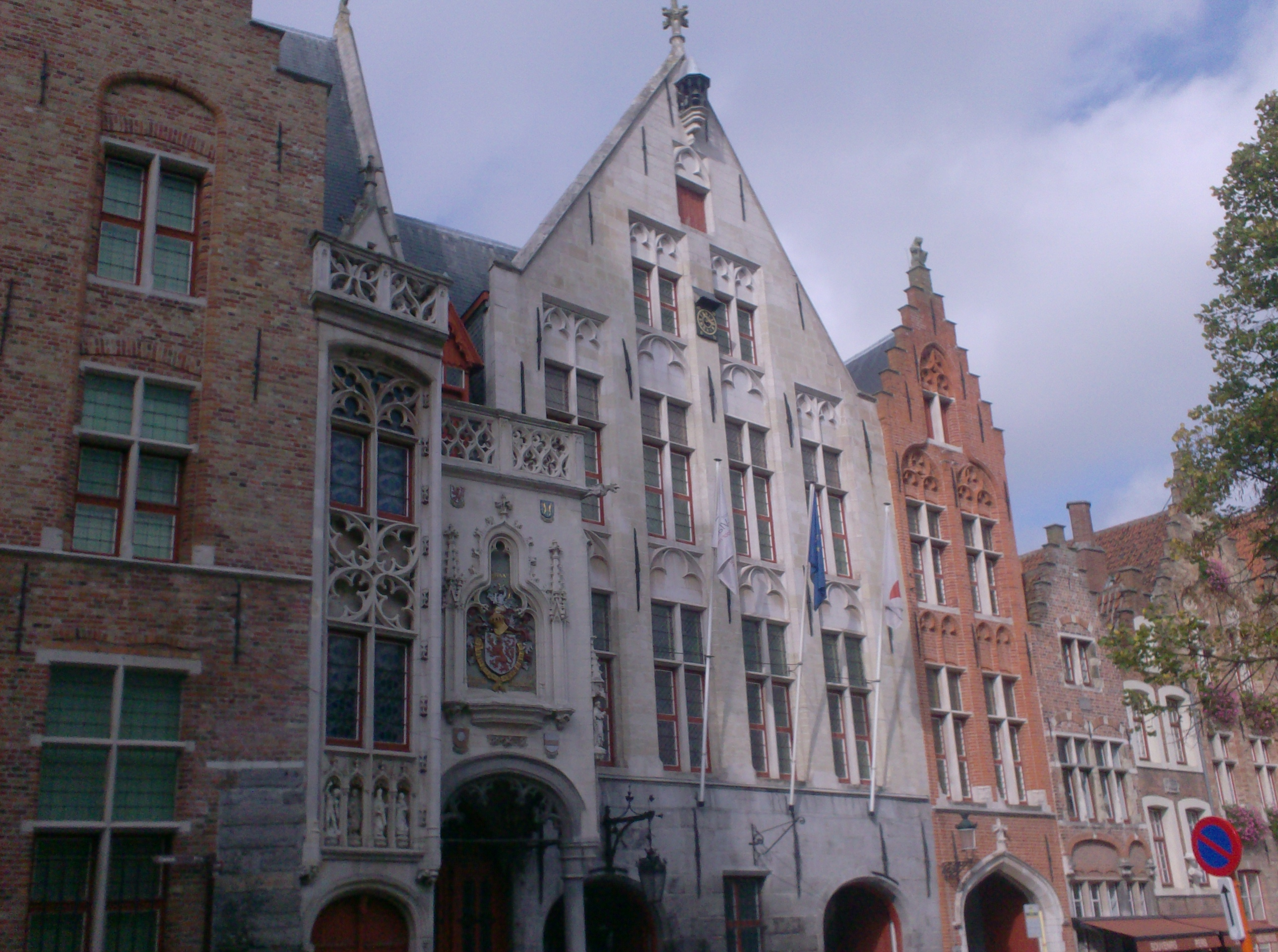 Old toll house in Bruges (Belgium)